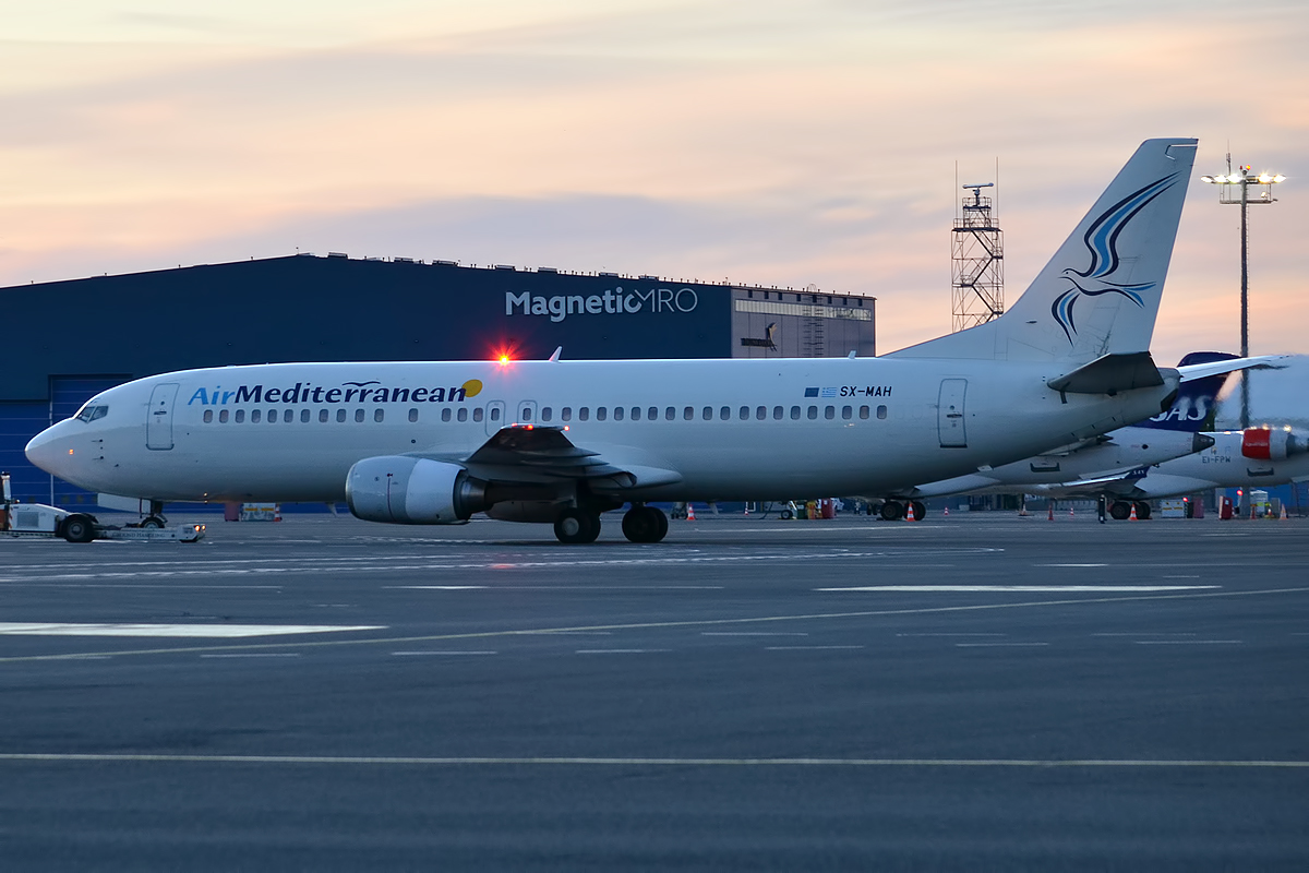 Air Mediterranean, SX-MAH, Boeing 737-405